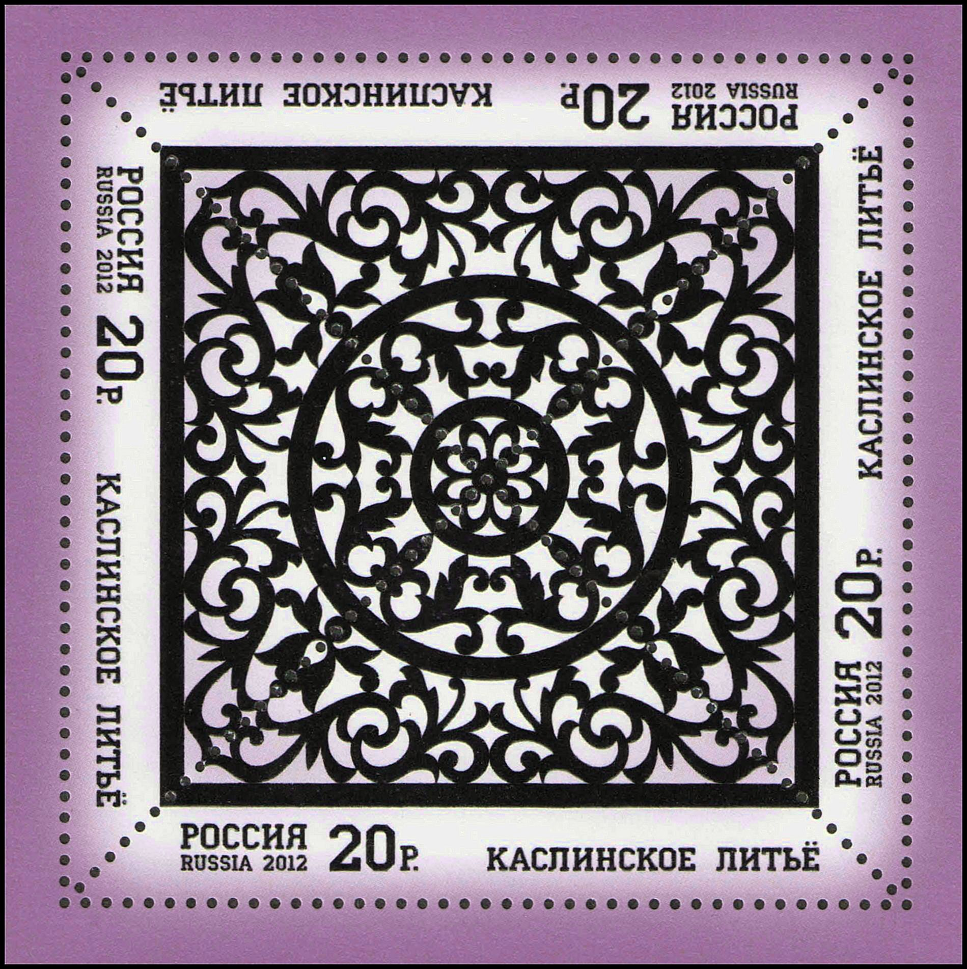 Decorative and Applied Arts of Russia (ongoing stamp series, issue II). The Kasli cast-iron moulding. The pattern of the Kasli lattice work: two concentric rosettes, ornament. The stamp of Russia, 20.00 Rubles, 15 November 2012, PTC Marka Catalogue No 1648, Michel No 1880. The triangular stamps were issued in the sheets of small format: 4 stamps in 1 sheet. Coated paper. Offset printing, thermography. Colours: violet and black. Perforation: frame 11½. Size of the stamp: 50×50×70 mm (35×70 mm). Size of the stamp sheet: 80×80 mm. Print run: 240,000 stamps.